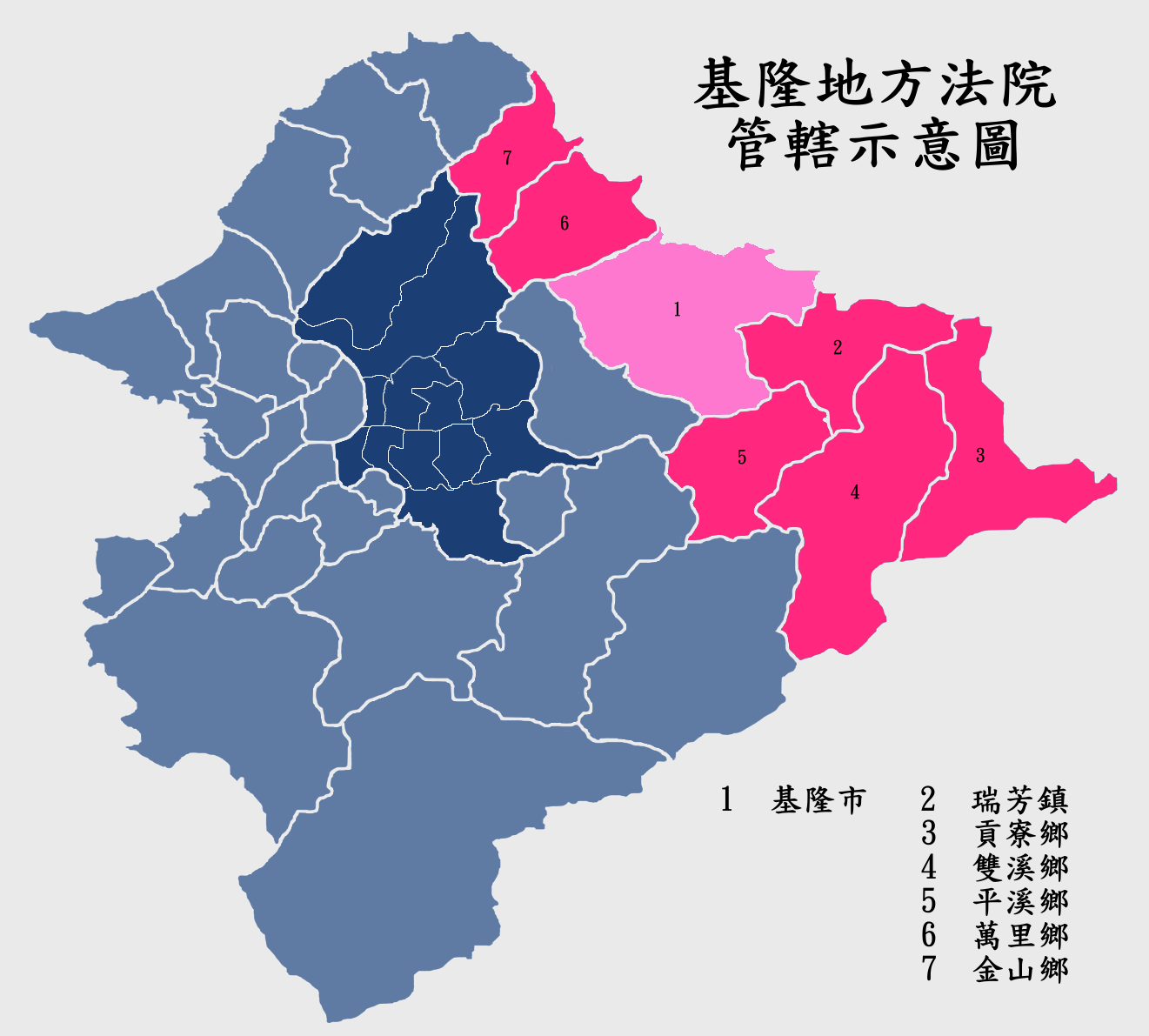 The administration map of Taiwan Keelung District Court.